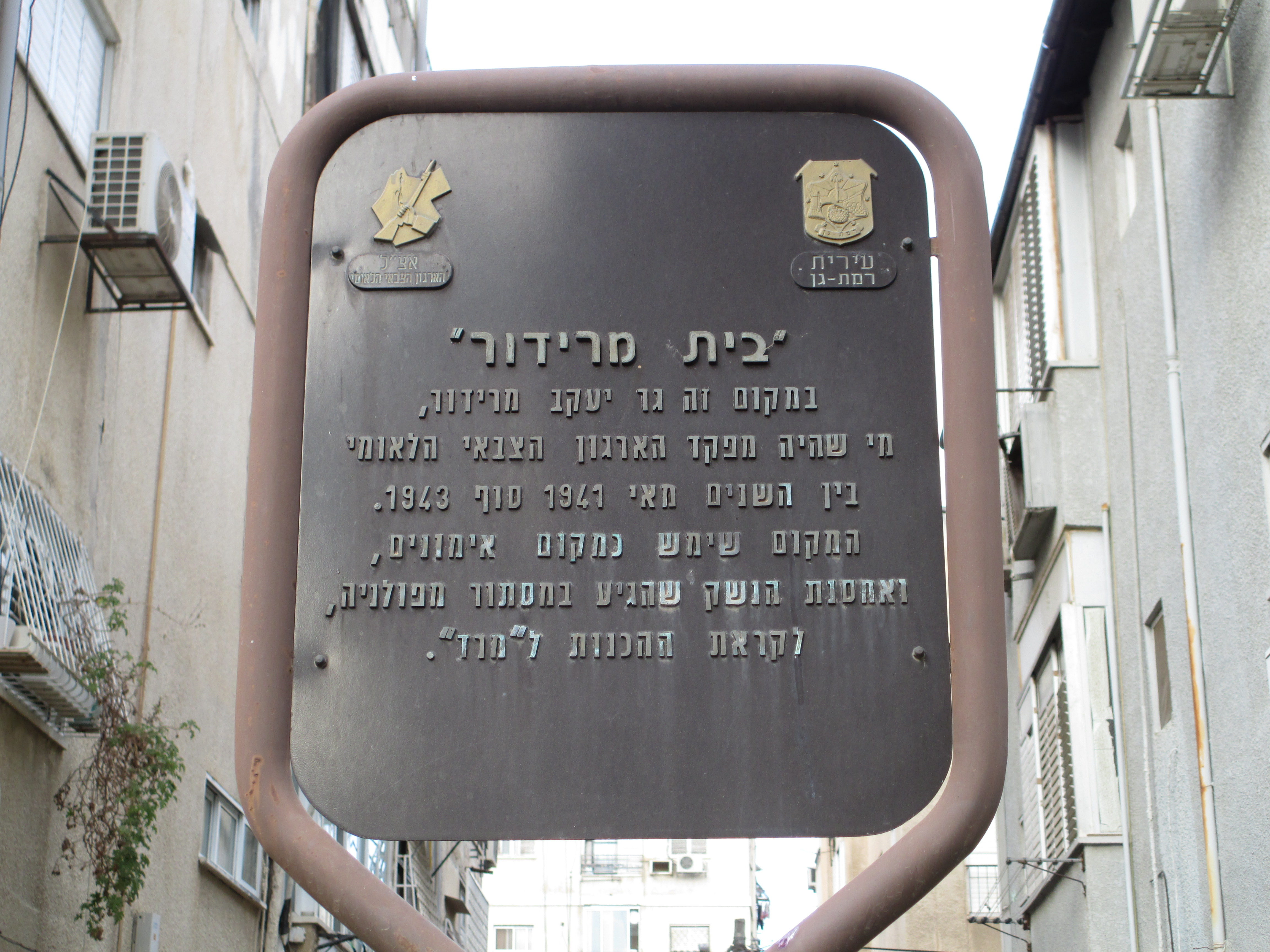 memorial plaque ar ya'akov meridor house in ramat gan לוחית זיכרון במקום בו עמד ביתו של יעקב מרידור ברח' רוקח 7 ברמת גן